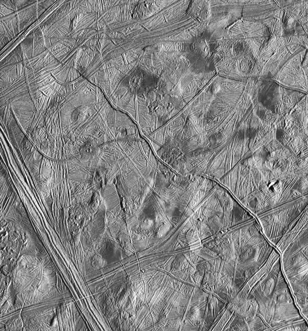 This moderate-resolution view of the surface of one of Jupiter's moons, Europa, shows the complex icy crust that has been extensively modified by fracturing and the formation of ridges. The ridge systems superficially resemble highway networks with overpasses, interchanges and junctions. From the relative position of the overlaps, it is possible to determine the age sequence for the ridge sets. For example, while the 8-kilometer-wide (5-mile) ridge set in the lower left corner is younger than most of the terrain seen in this picture, a narrow band cuts across the set toward the bottom of the picture, indicating that the band formed later. In turn, this band is cut by the narrow 2- kilometer-wide (1.2-mile) double ridge running from the lower right to upper left corner of the picture. Also visible are numerous clusters of hills and low domes as large as 9 kilometers (5.5 miles) across, many with associated dark patches of non-ice material. The ridges, hills and domes are considered to be ice-rich material derived from the subsurface. These are some of the youngest features seen on the surface of Europa and could represent geologically young eruptions. This area covers about 140 kilometers by 130 kilometers (87 miles by 81 miles) and is centered at 12.3 degrees north latitude, 268 degrees west longitude. Illumination is from the east (right side of picture). The resolution is about 180 meters (200 yards) per pixel, meaning that the smallest feature visible is about a city block in size. The picture was taken by the Solid State Imaging system on board the Galileo spacecraft on February 20, 1997, from a distance of 17,700 kilometers (11,000 miles) during its sixth orbit around Jupiter.